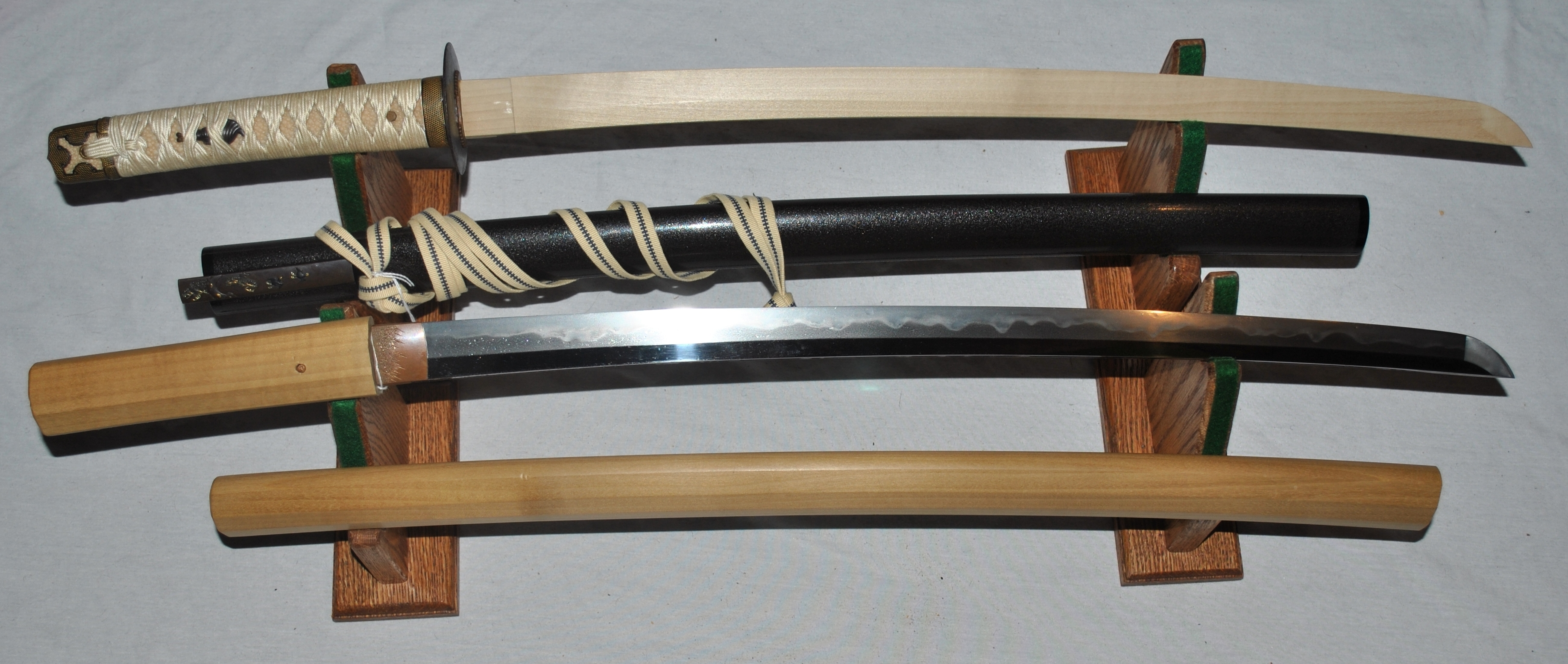 Antique Japanese (samurai) katana from the 17th century, signed and dated 1673 "Tsuda echizen omi (no) kami Sukehiro", showing the koshirae, shirasaya and tsunagi.